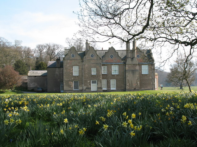 Norton Conyers House What a strange house this is. The 'Dutch' gables suggest the 17th century, and it would appear that much of the house dates from this time. However, the SW front has 'bay' windows which look much later. The house has an unpleasant rendered finish, which in places has flaked off to reveal hand made brick beneath. How much nicer the house would look if the render was removed.